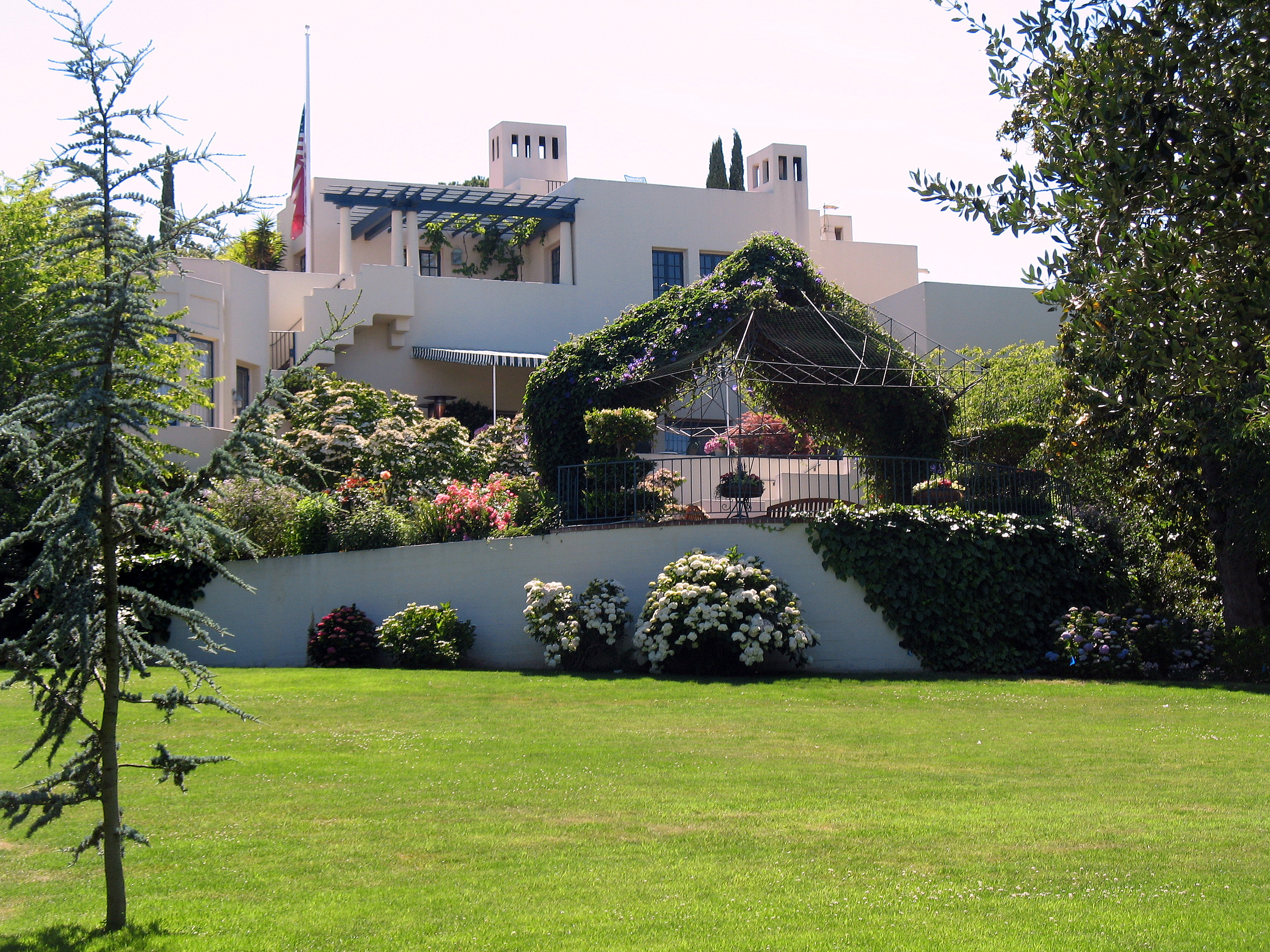 Lou Henry Hoover House, 623 Mirada Rd., Stanford, CA